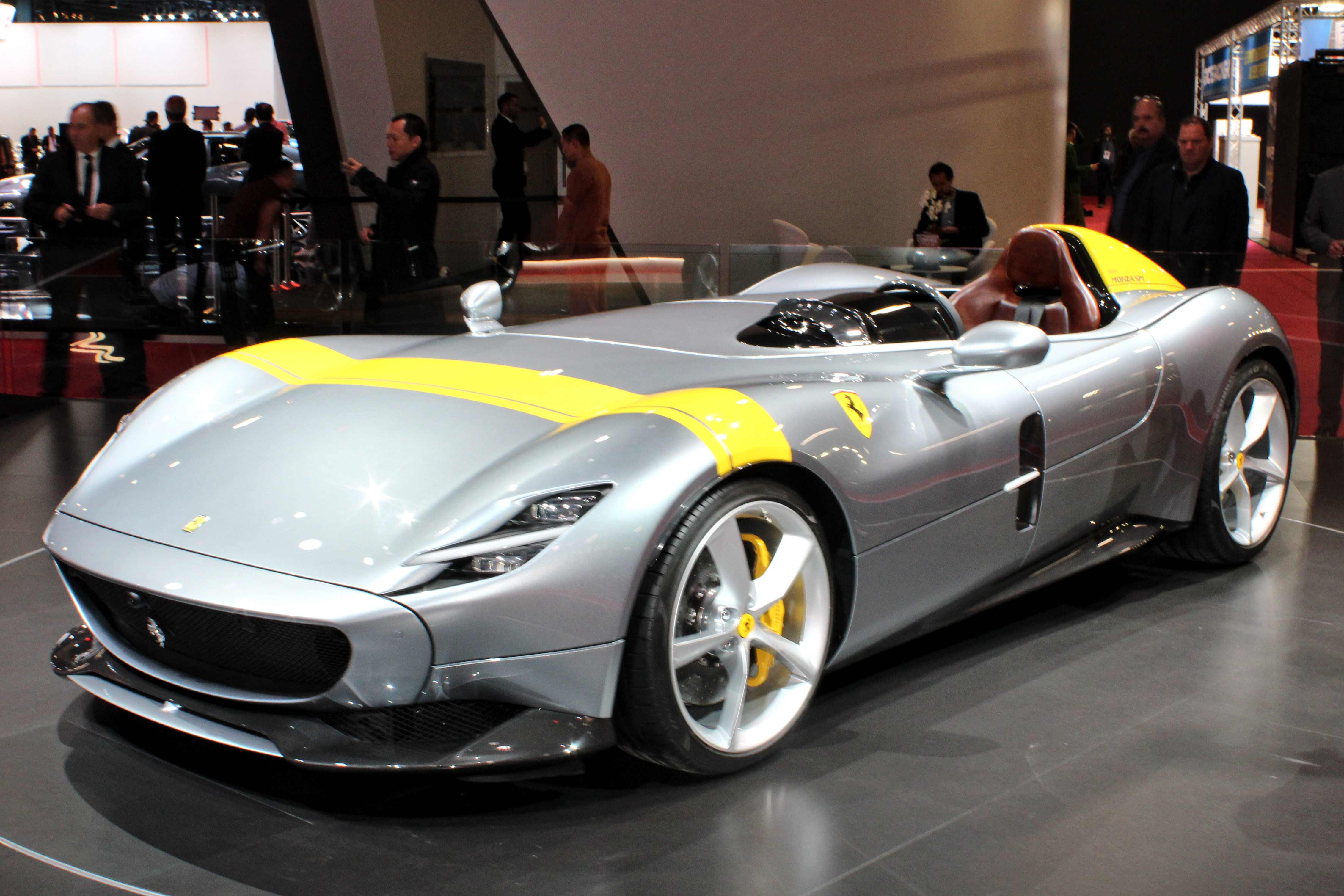 Ferrari Monza SP1 at Paris Motor Show 2018